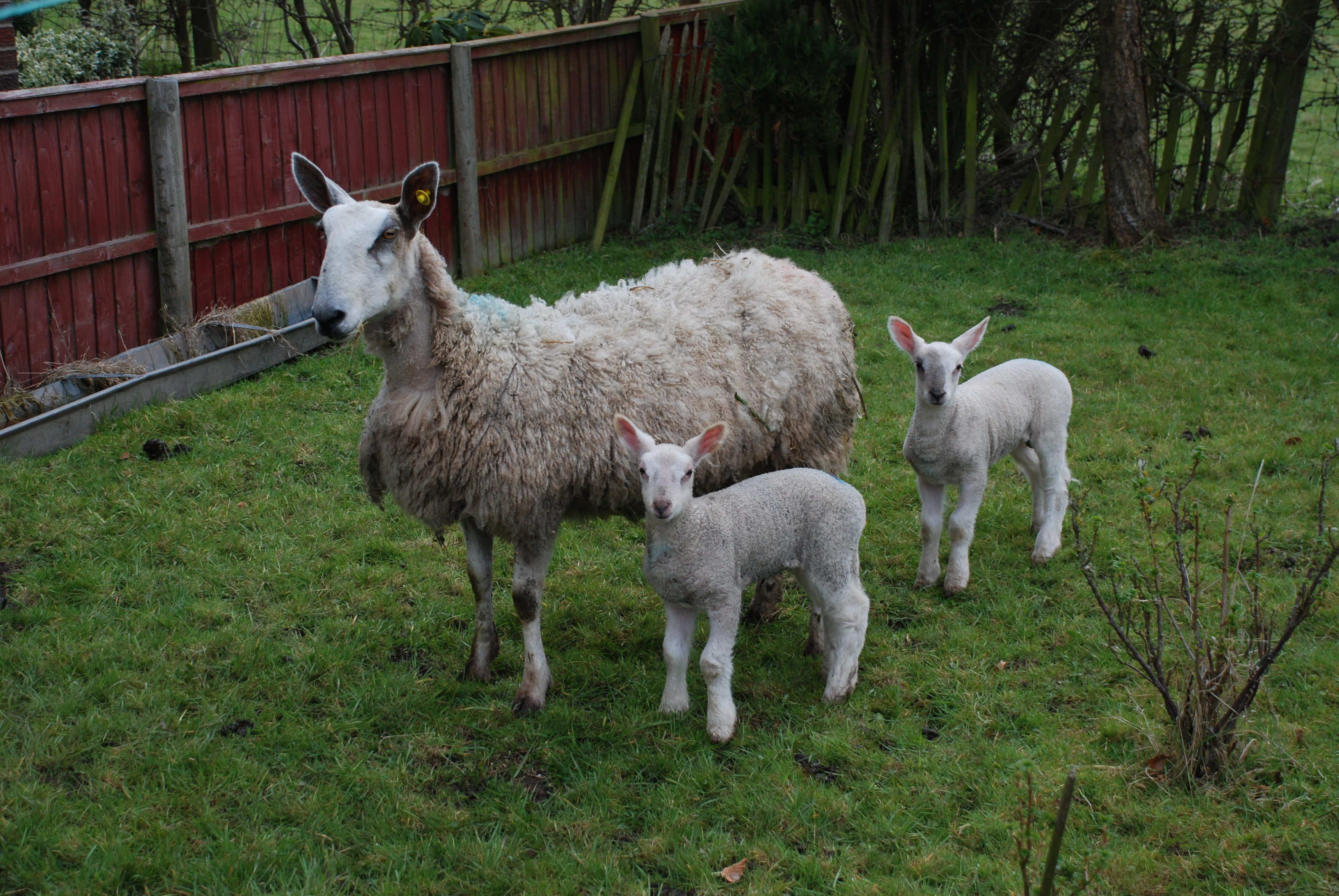 A Bluefaced Leicester ewe and her lambs.